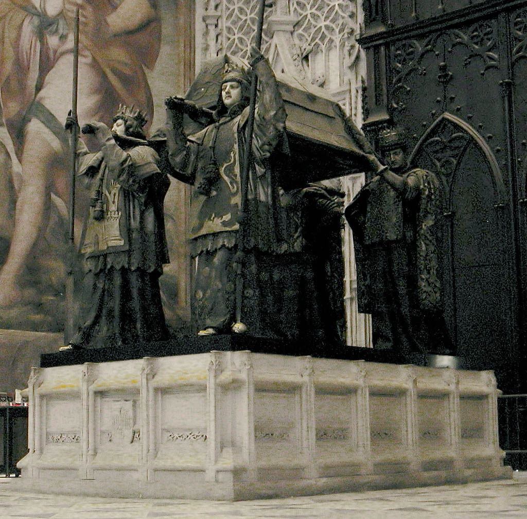 Tomb of Christopher Columbus, Cathedral of Seville. The four kings bearing his tomb represent the four kingdoms of Spain: Castile, Leon, Aragon, and Navarre.